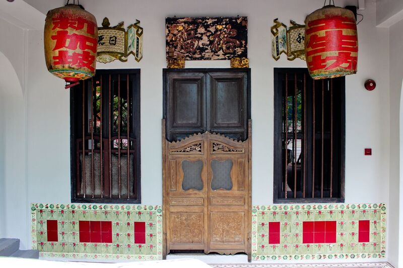 Typical Peranakan Entryway